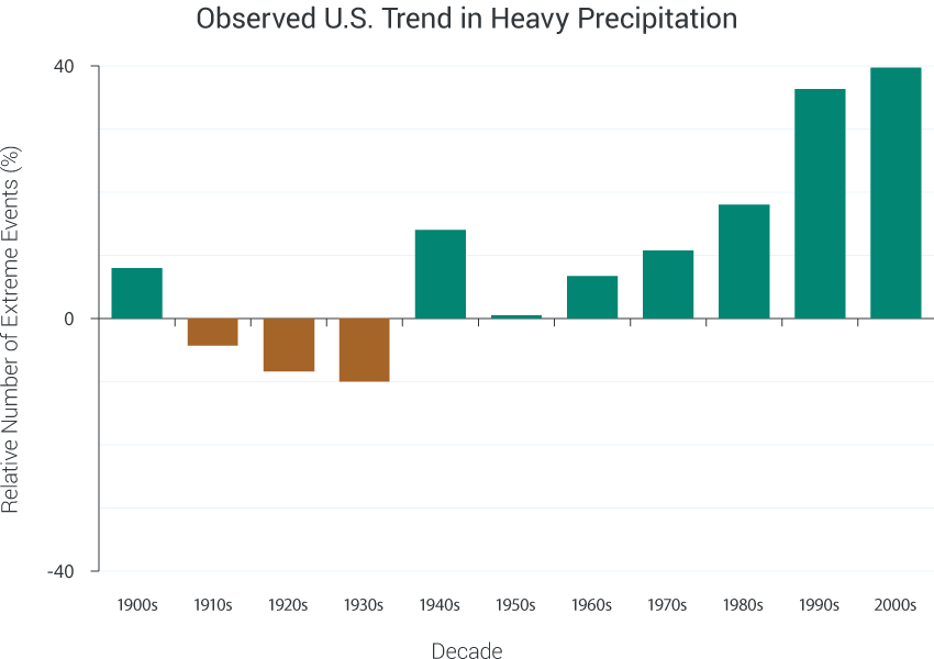 One measure of heavy precipitation events is a two-day precipitation total that is exceeded on average only once in a 5-year period, also known as the once-in-five-year event. As this extreme precipitation index for 1901-2012 shows, the occurrence of such events has become much more common in recent decades. Changes are compared to the period 1901-1960, and do not include Alaska or Hawai‘i. (Figure source: adapted from Kunkel et al. 2013). The mechanism driving these changes is well understood. Warmer air can contain more water vapor than cooler air. Global analyses show that the amount of water vapor in the atmosphere has in fact increased due to human-caused warming. This extra moisture is available to storm systems, resulting in heavier rainfalls. Climate change also alters characteristics of the atmosphere that affect weather patterns and storms.